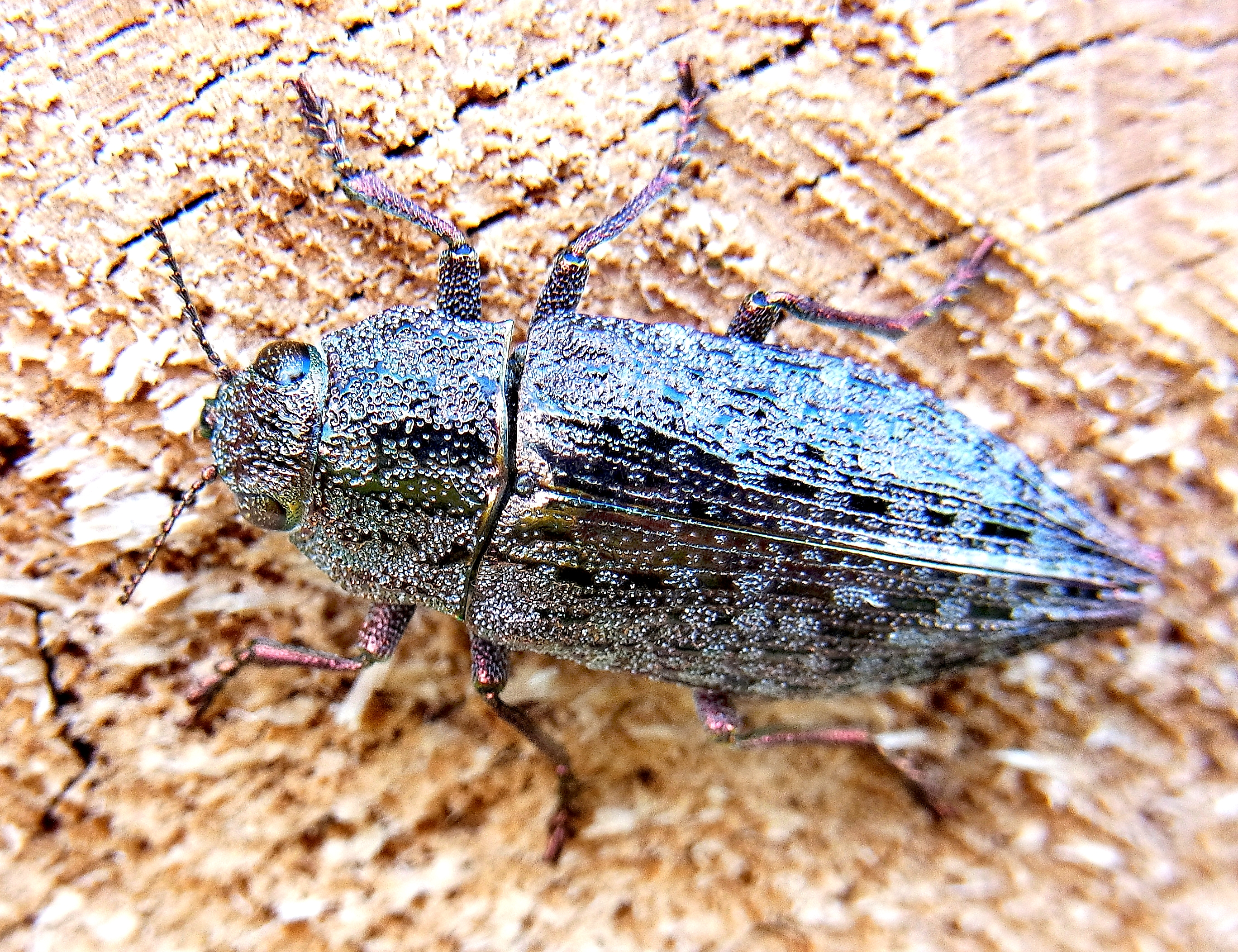 Dicerca alni from Hungary Villány-mountains, at limetree at 2012-05-05